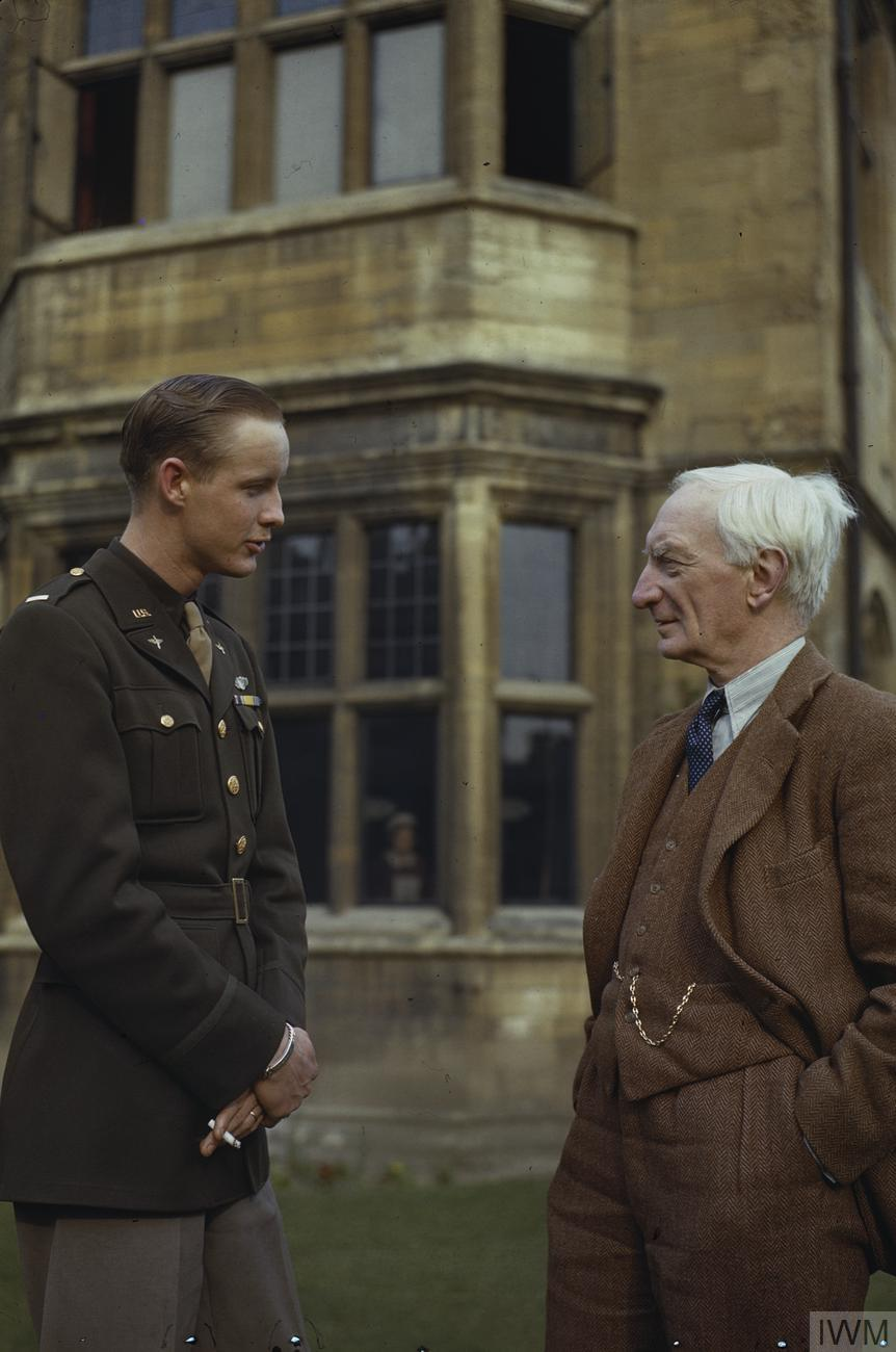 The Home Front in Britain 1939-1945 Lieutenant James F Gaylor of the 8th United States Army Air Force, talking to the Master of University College, Oxford, Sir William Beveridge. Lieutenant Gaylor, a fighter pilot from Texas, was in hospital at Oxford after his eardrums were injured in a dog fight, and was a guest at one of the regular tea parties given by Sir William and Lady Beveridge for American troops.